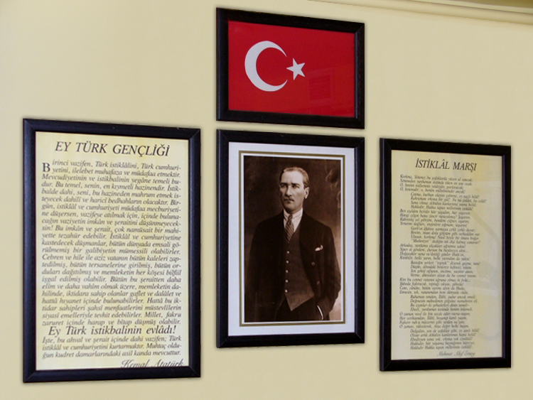 There is a copy of each of these four things on the wall of all Turkish classrooms: a Turkish flag, a portrait of Mustafa Kemal Atatürk, the lyrics of the Turkish national anthem, and Atatürk's speech of advice to Turkish youth.